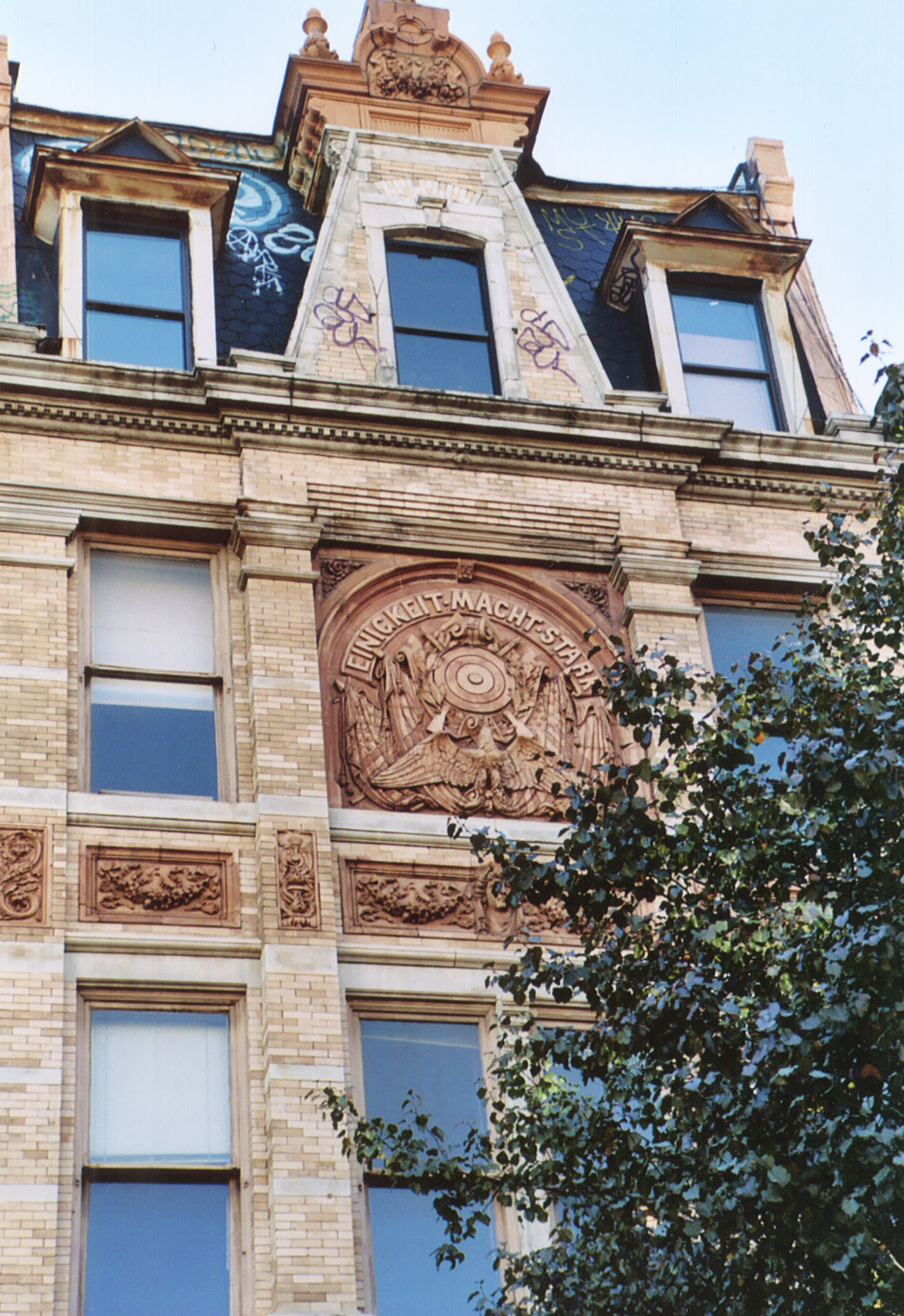 Looking southwest at house front in New York City, Manhattan, East Village (Little Germany) with German inscription. Einigkeit macht stark (United we are strong). German-American Shooting Society Clubhouse, 12 St Mark's Place, built 1888-89, William C. Frohne arch. For Details see Landmarks Presevation Commission